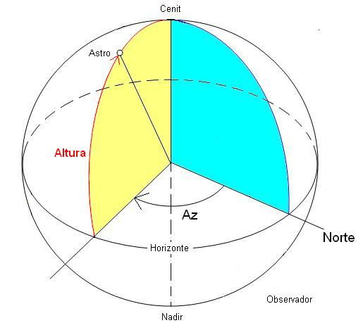 Graphic abaout nautical height